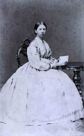 Ida Mariette Helene Falbe-Hansen (1849-1922), Danish women's rights activist and literary historian